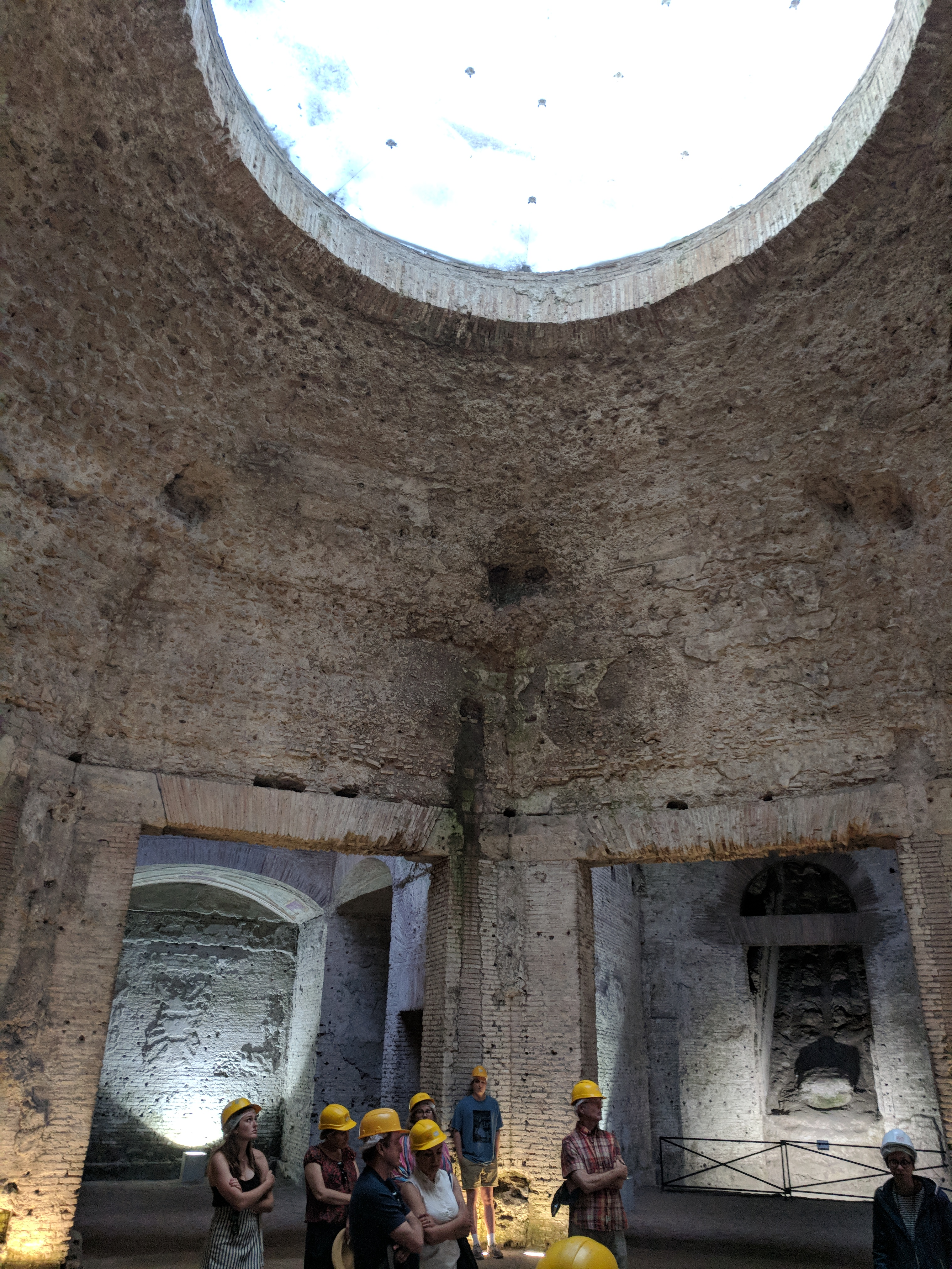 Rome, Italy